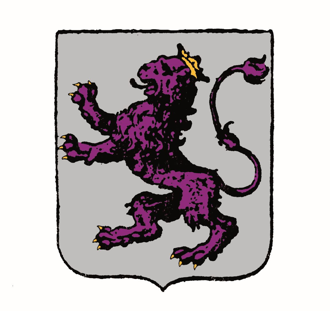 Coat of Arms of the De Silva